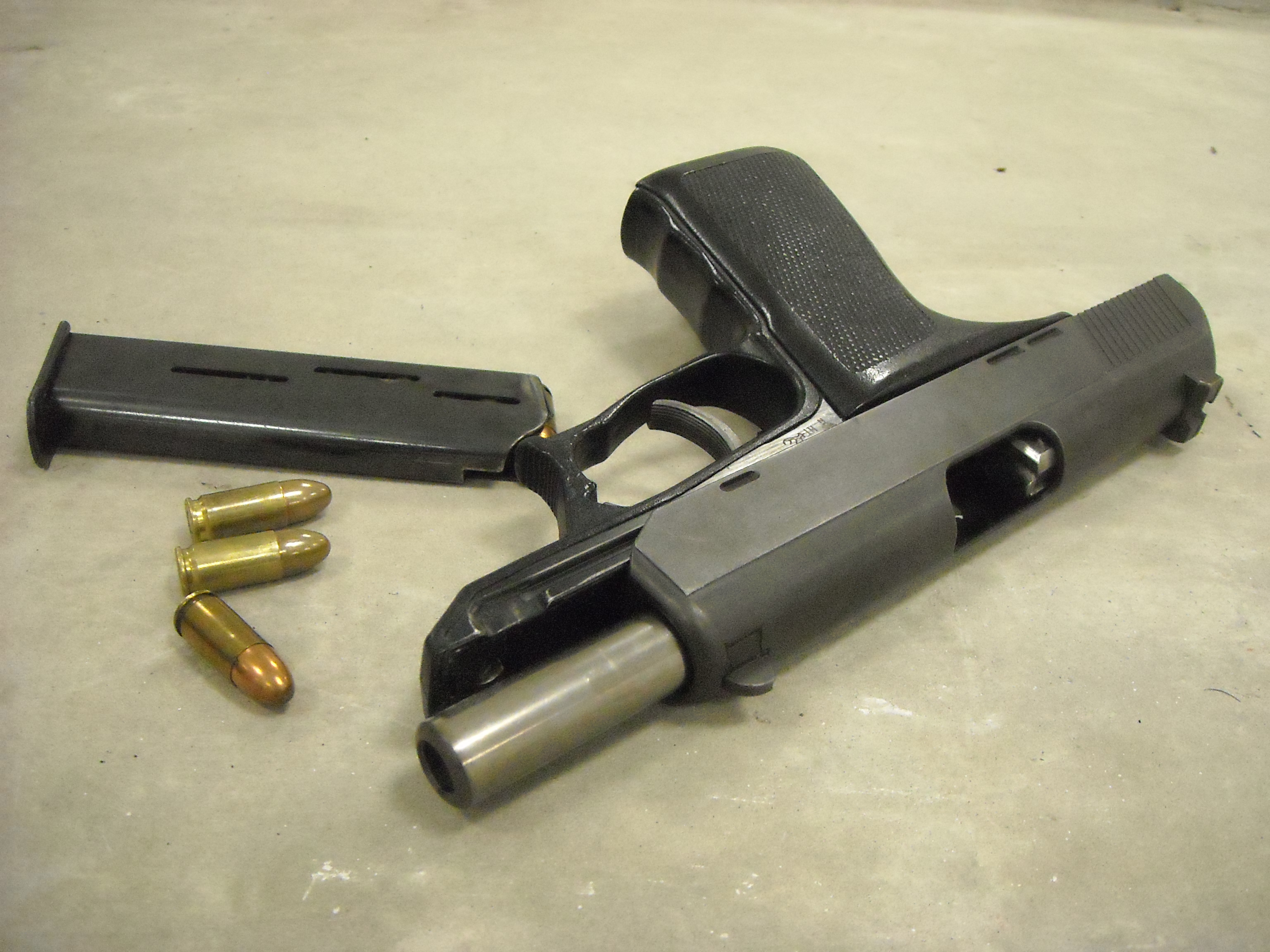 HK P9S in 9 mm Parabellum. The P9S was adopted by the US Navy, German police and other military and law enforcement. The gun also comes in .45 ACP and 7.65x22mm Parabellum.